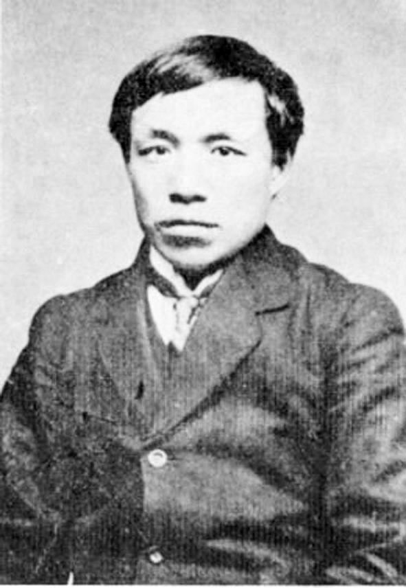 Jiang Yiwu (1884-1913)